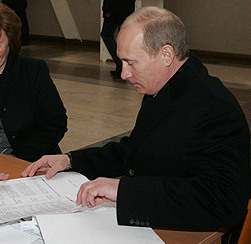 MOSCOW. At polling station no. 2074.